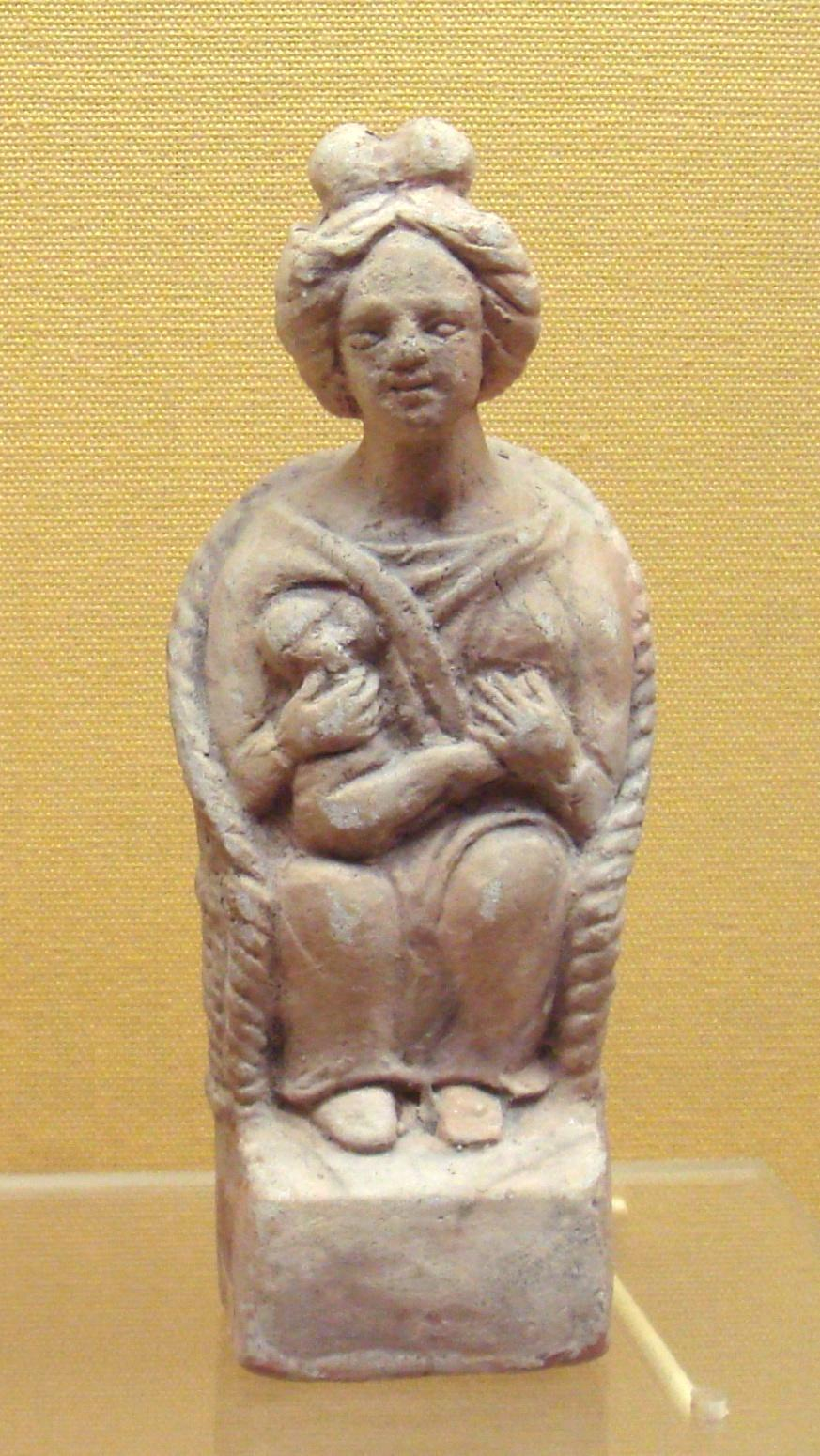 Matrona_Gaul_goddess = the french Dea Matrona, or a Matrone, or another kind of mother goddess?